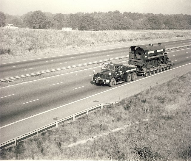 Going to the Bluebell Railway, along the A27. [Geograph caption:]The locomotive on this transporter, is a Maunsell S15 Number 30847 and was the last 4-6-0 built for the Southern Railway. It was on its way from Barry Scrapyard to the Bluebell Railway for restoration. It was the 95th Locomotive to leave the scrapyard for Preservation on 27th October 1978. The ballast tractor hauling the trailer is a Scammell Contractor.